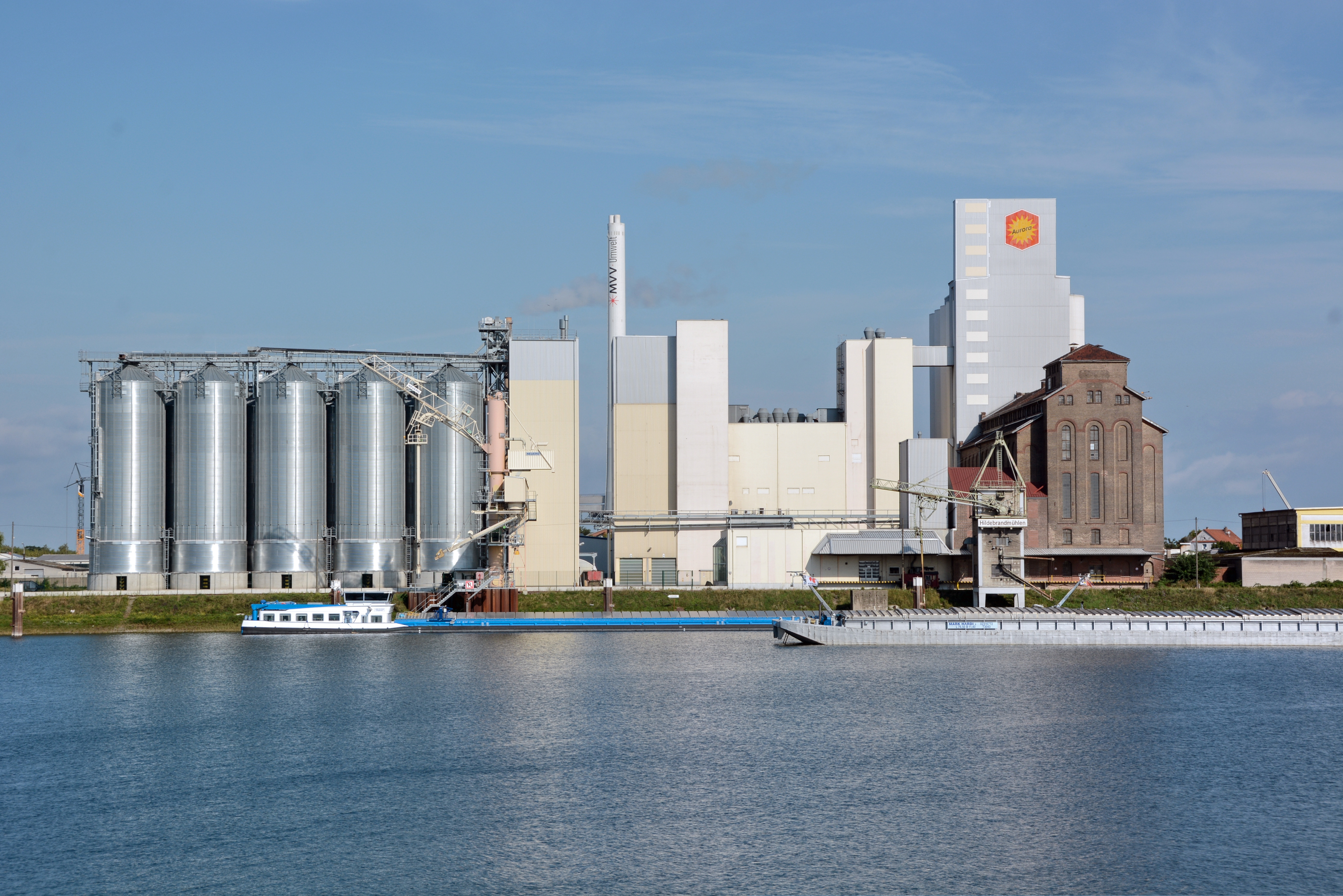 Hildebrandmühlen (Hildebrand mills) Mannheim, Germany, view across industry harbor (harbor 41)